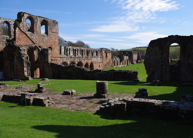 Furness Abbey, Barrow-in-Furness, United Kingdom, April 2010